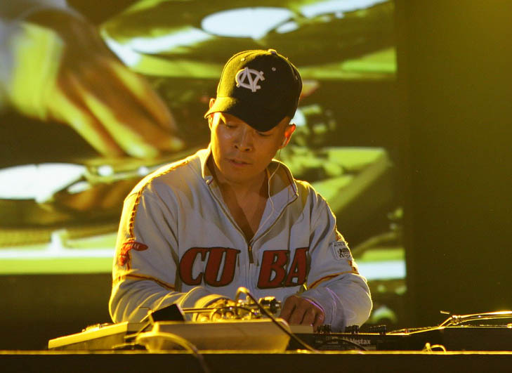 DJ Q-Bert at the Nuits Sonores festival (Lyon, France) in May 2006.